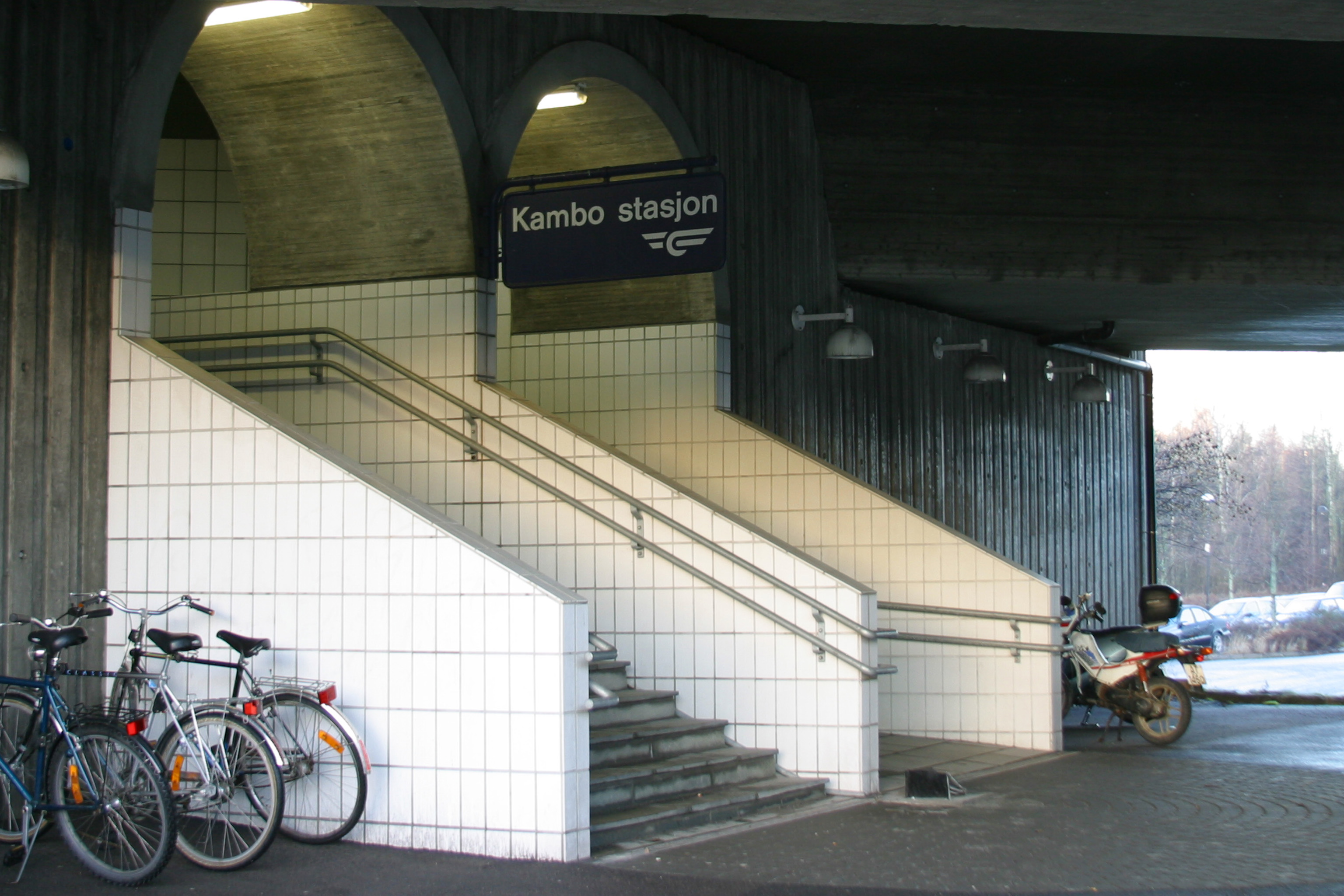 Picture of Kambo Railway Station (Norway)